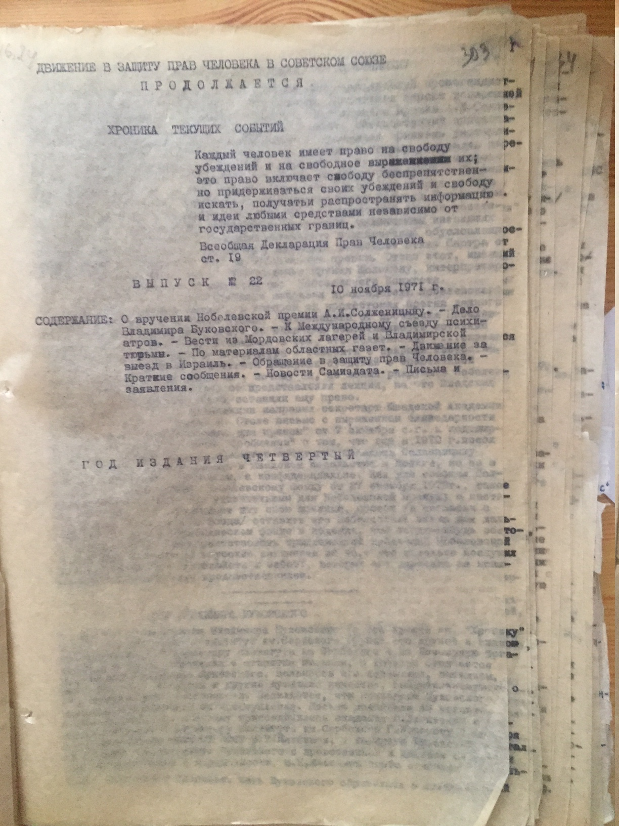 Typewritten copy of the Russian Samizdat human rights periodical periodical Chronicle of Current Events. Issue No 22, dated 10 November 1971. Front cover, several pages visible. Moscow.